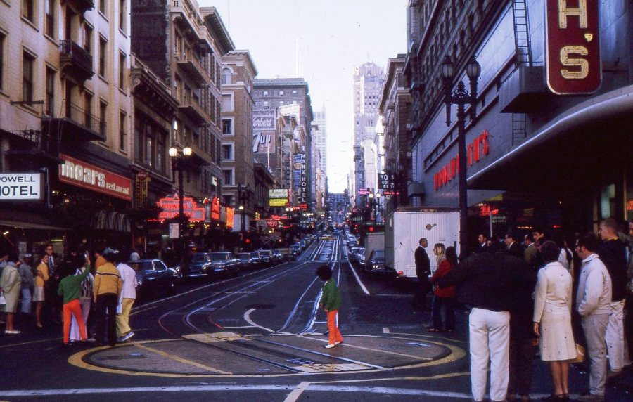 Powell Street in San Francisco in August of 1969. The scene looks very different today.